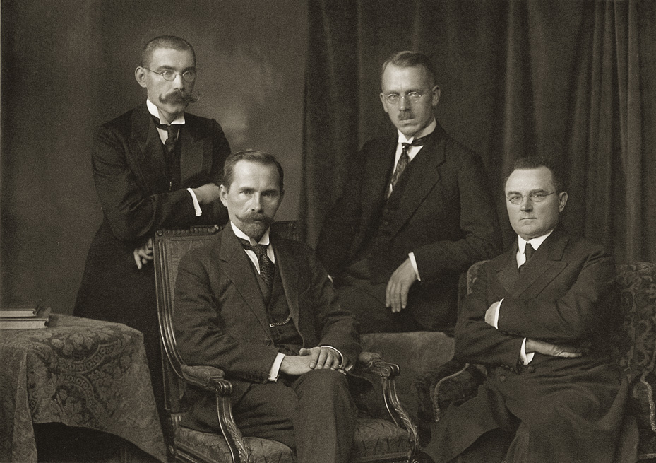 Presidium of Council of Lithuania (1918). From left siting: chairman A.Smetona, second vice-chairman J. Staugaitis, standing: secretary J. Šernas, first vice-chairman J. Šaulys.